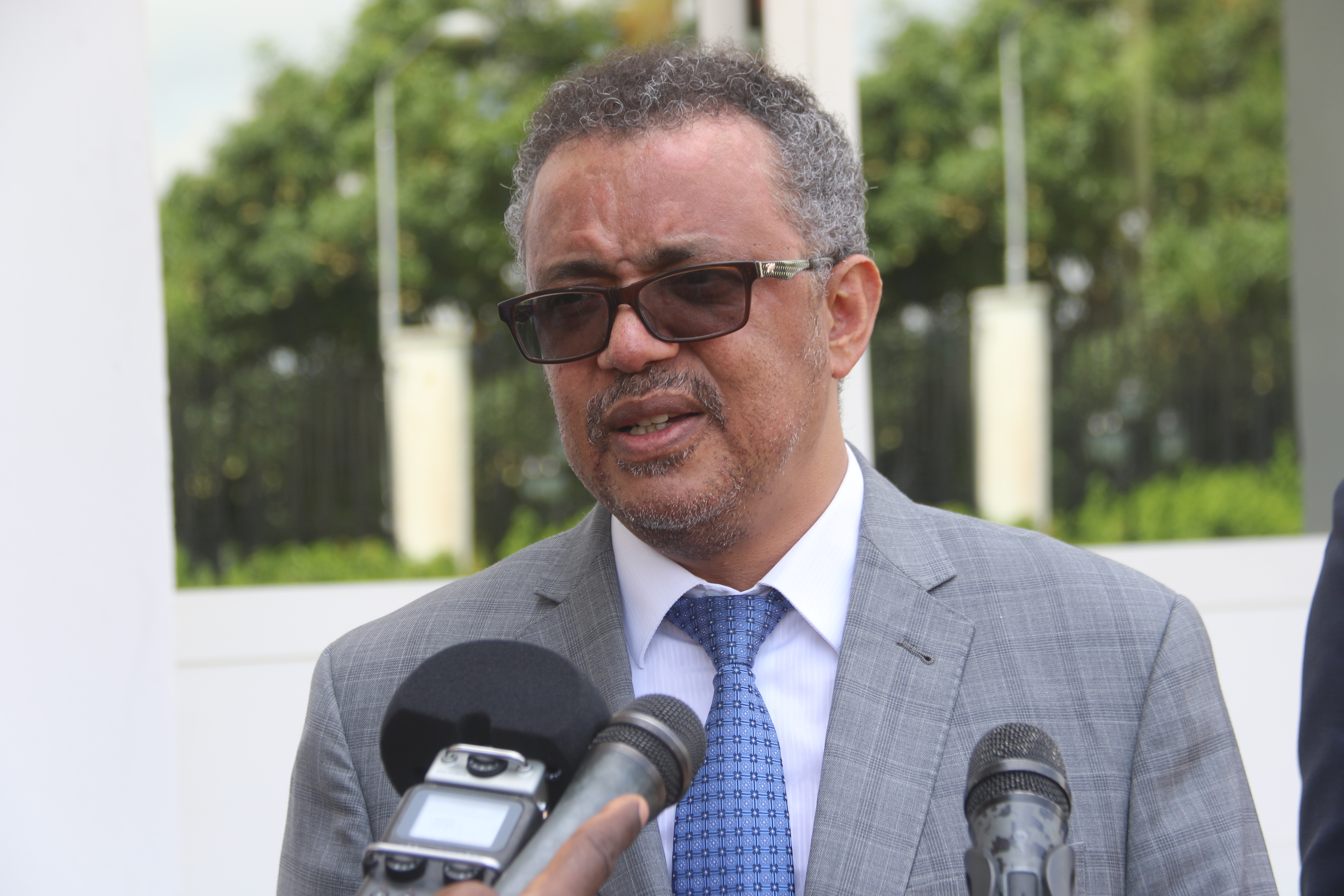 Tedros Adhanom Ghebreyesus, World Health Organization Director-General